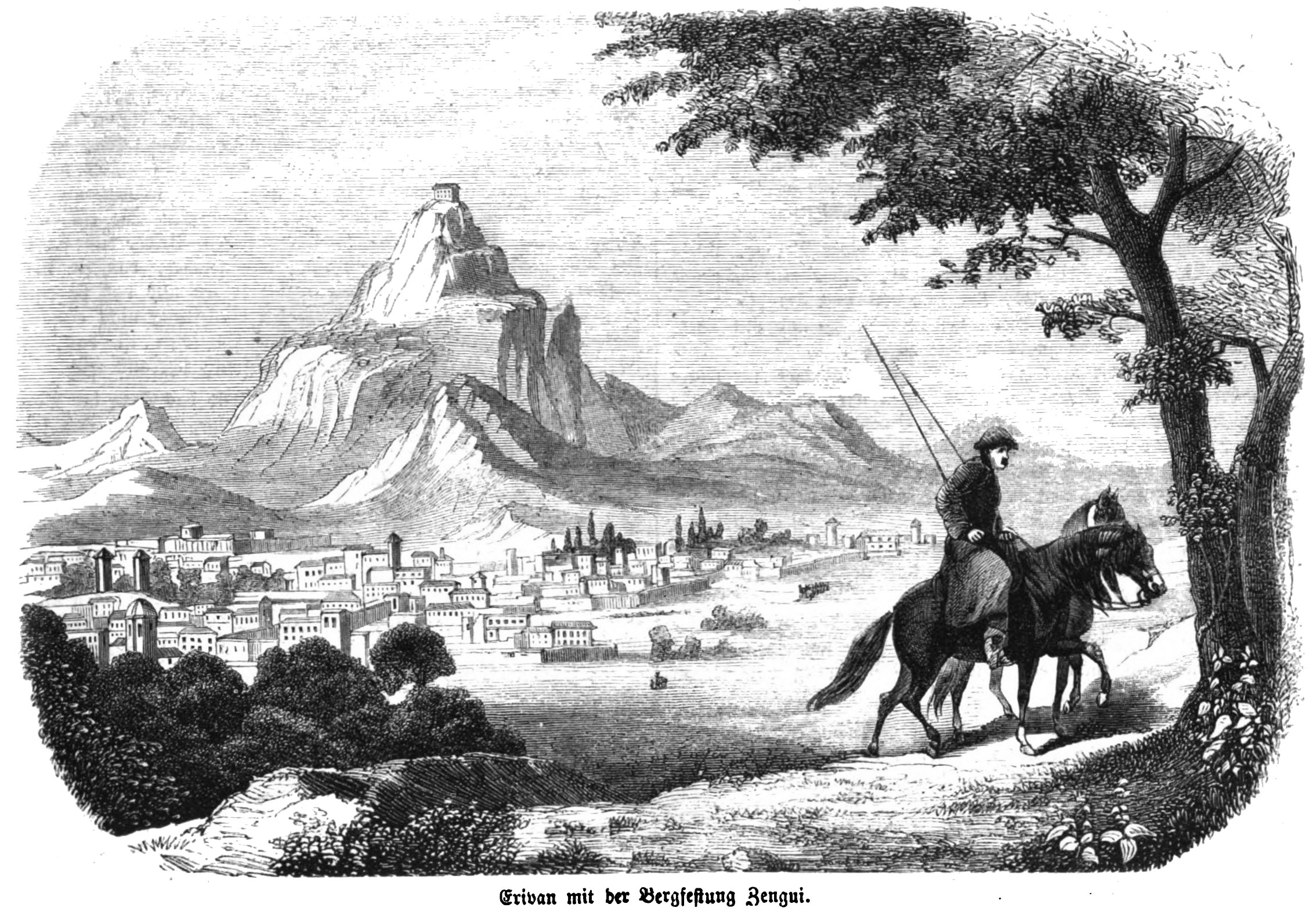 caption: "Erivan mit der Bergfestung Zengui."